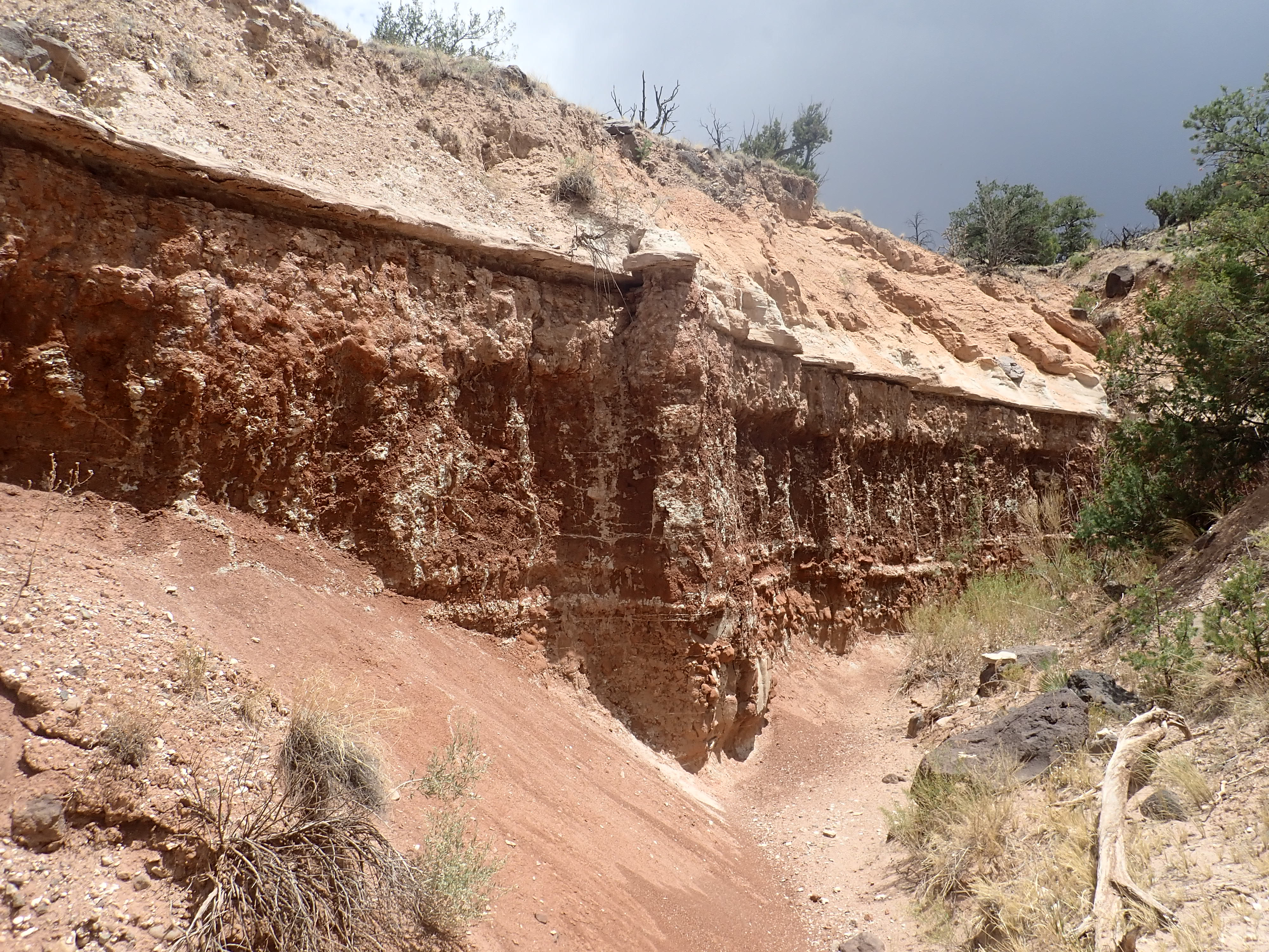 This image shows an exposure of Rock Point Formation of the Chinle Group capped by Entrada Formation sandstone. The Rock Point Formation is a Triassic siltstone formation, notable for a number of dinosaur quarries in the Chama Basin. The Entrada Formation is a Jurassic formation, separated from the Rock Point Formation by the regional J-2 disconformity, a gap of about 45 million years in the geologic record.